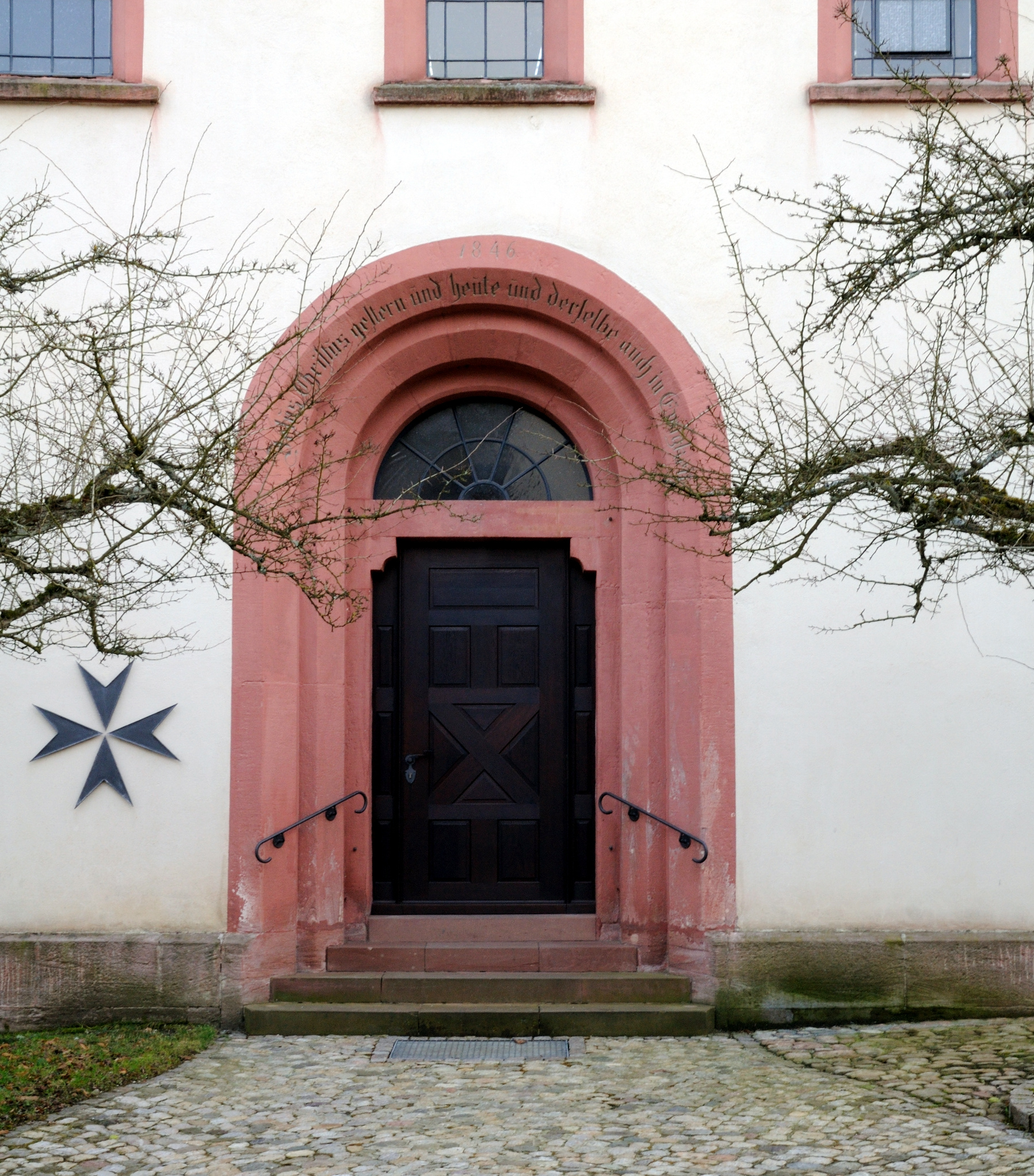 Kandern:Feuerbach: Protestant Church, main portal